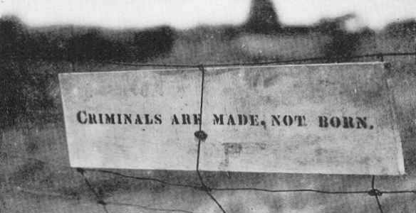 Sign on a fence at Andrew Kehoe's bombed-out farm near Bath, Michigan: "Criminals are made, not born"